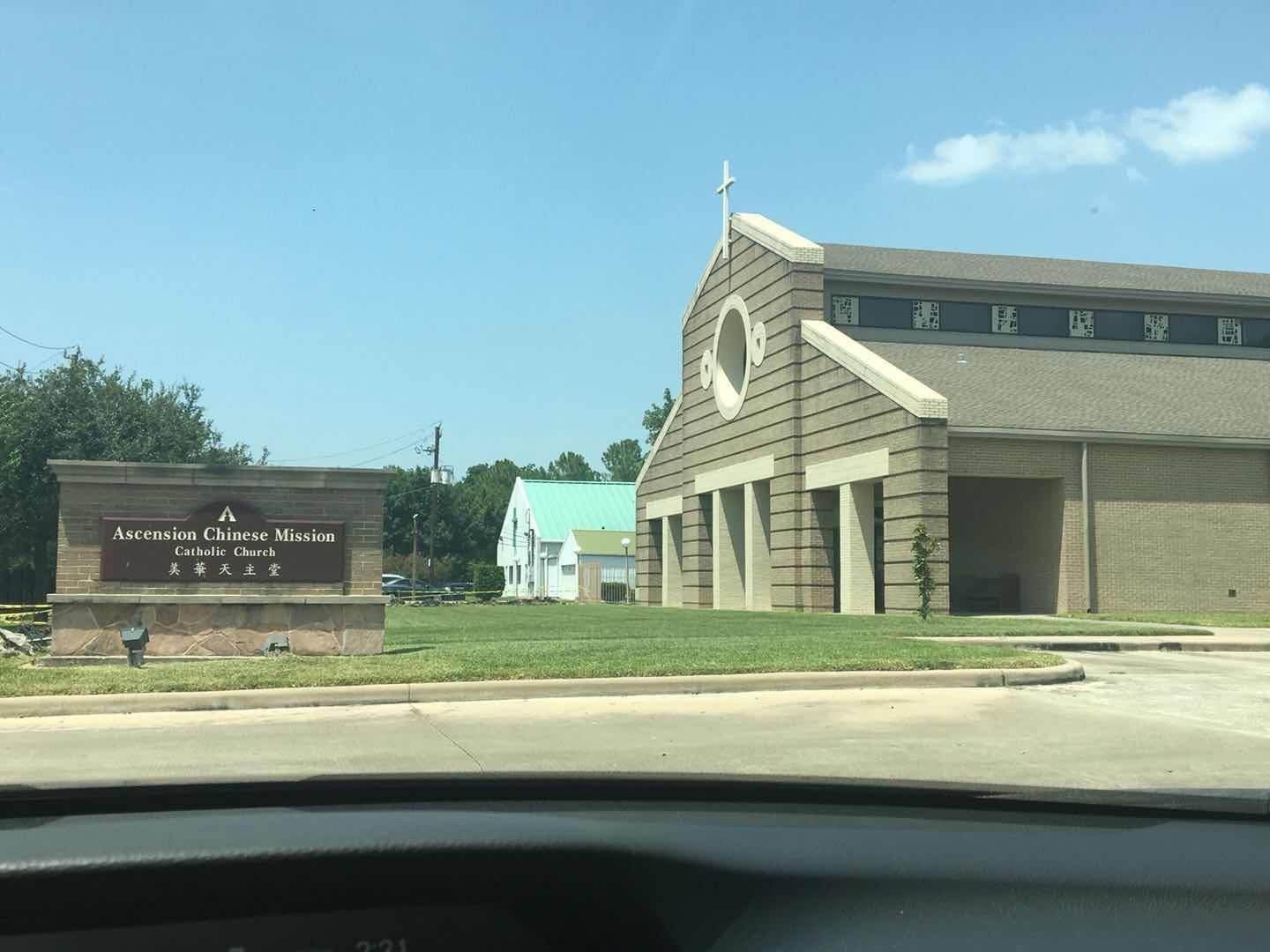 Ascension Chinese Church